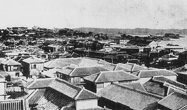 View of Naha in the beginning of the 20th century